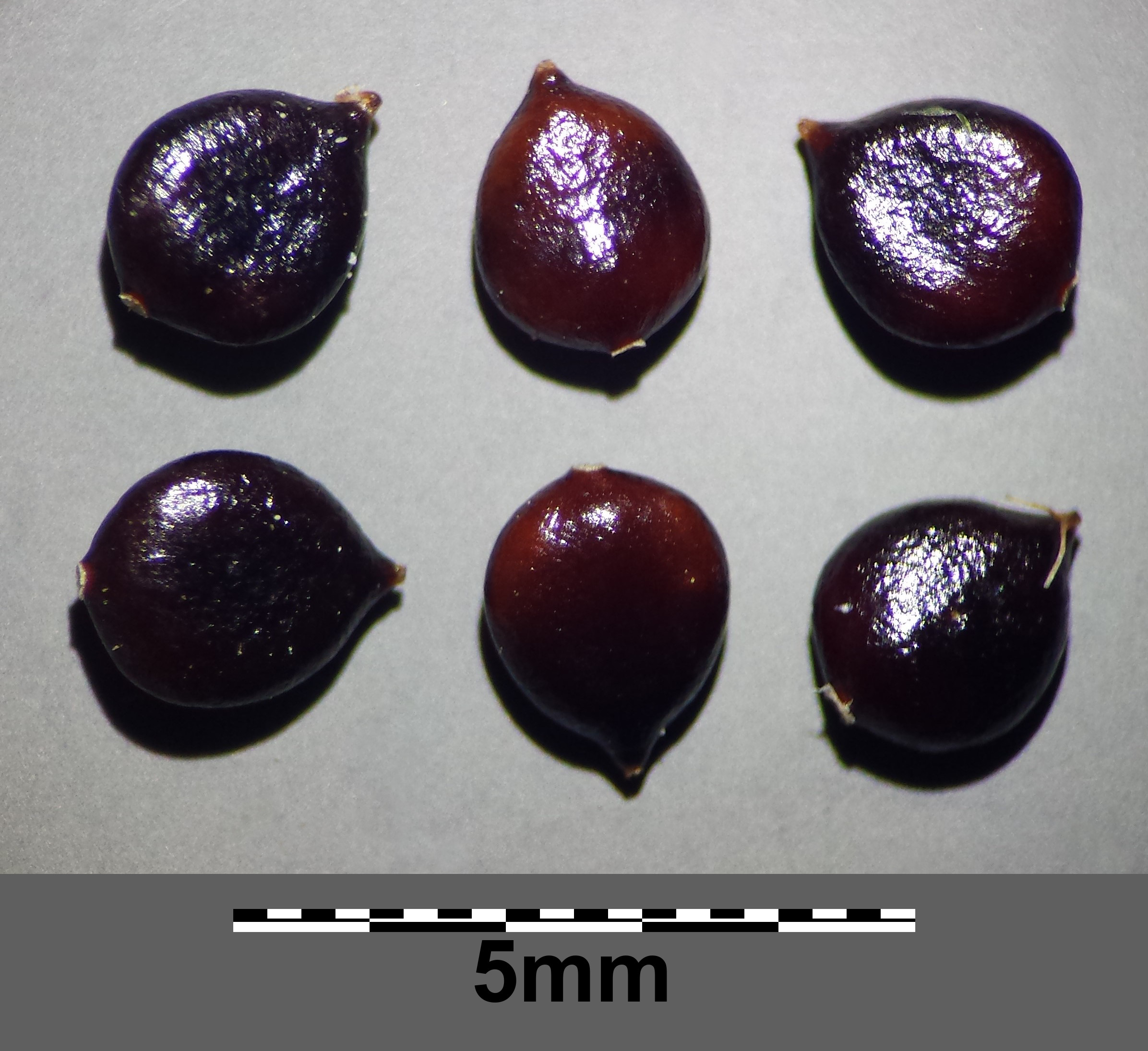 Fruits Taxonym: Persicaria maculosa ss Fischer et al. EfÖLS 2008 ISBN 978-3-85474-187-9 Location: Leopoldau, Vienna-Floridsdorf - ca. 160 m a.s.l. Habitat: gap in road surface